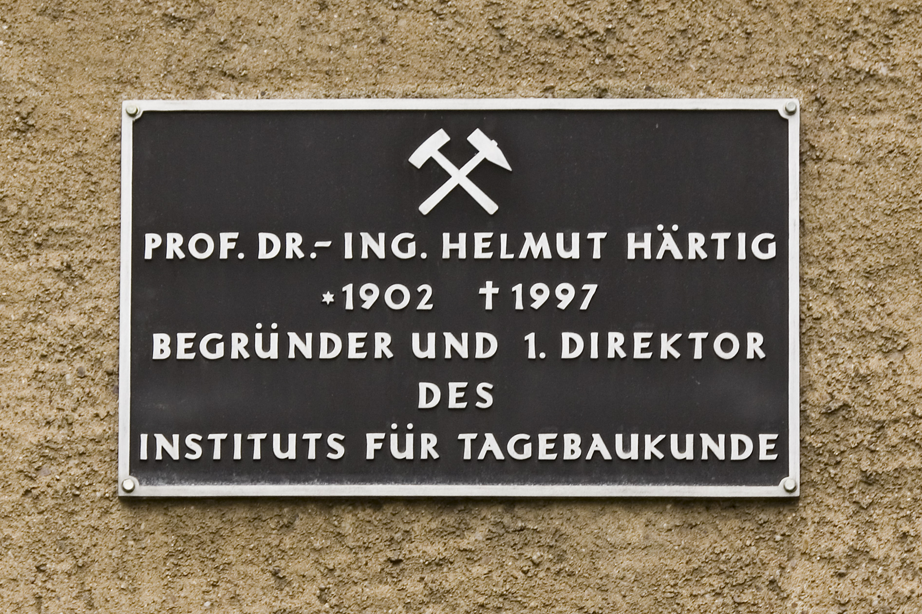 Helmut Härtig, plaque in Freiberg, Saxony